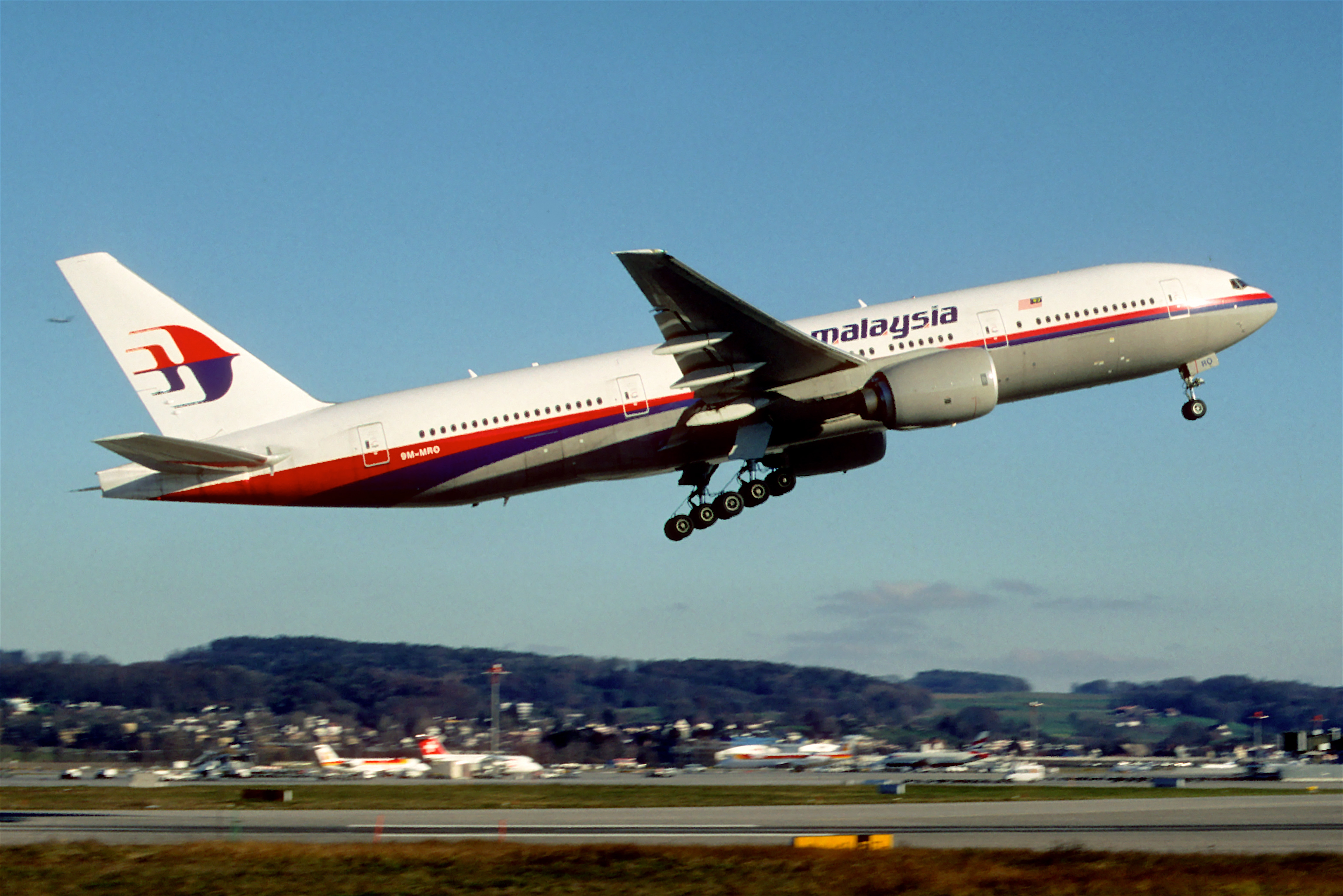 268aq - Malaysia Airlines Boeing 777-2H6ER; 9M-MRO@ZRH; 07.12.2003